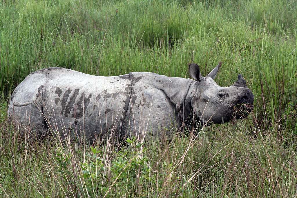 Rhino (Rhinoceros unicornis) at Kaziranga National Park, India